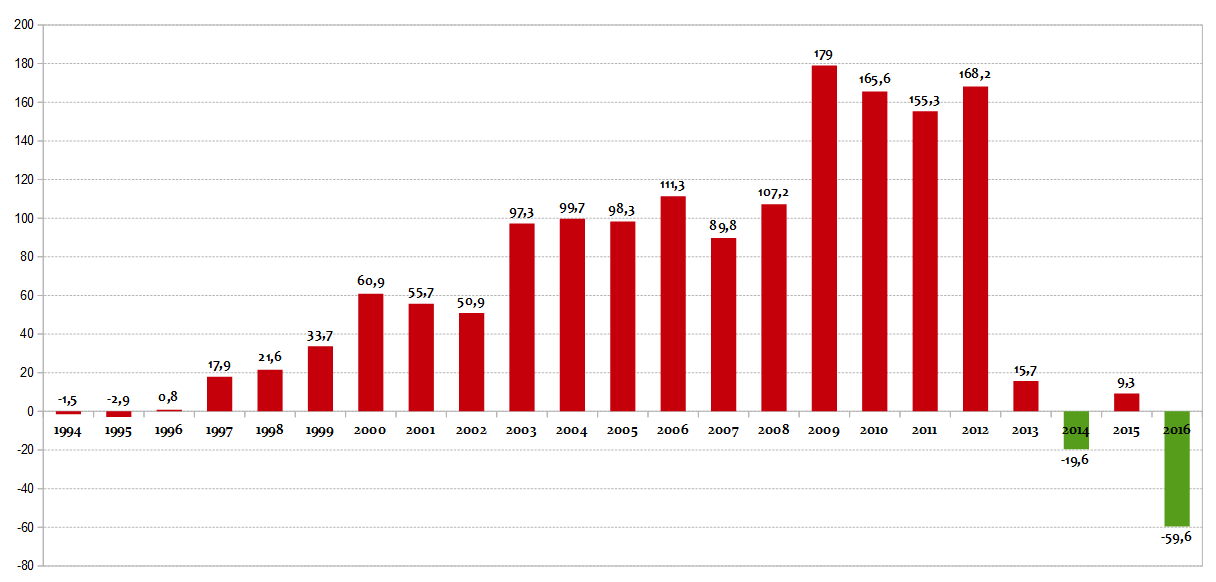 Growth of the Government debt of Czech Republic in years 1994–2015 (in billions of CZK.